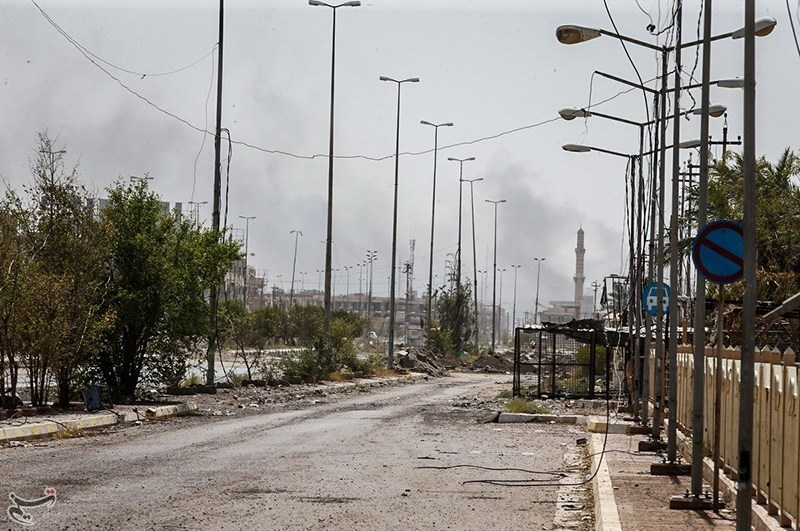 Retaking Fallujah City from ISIS